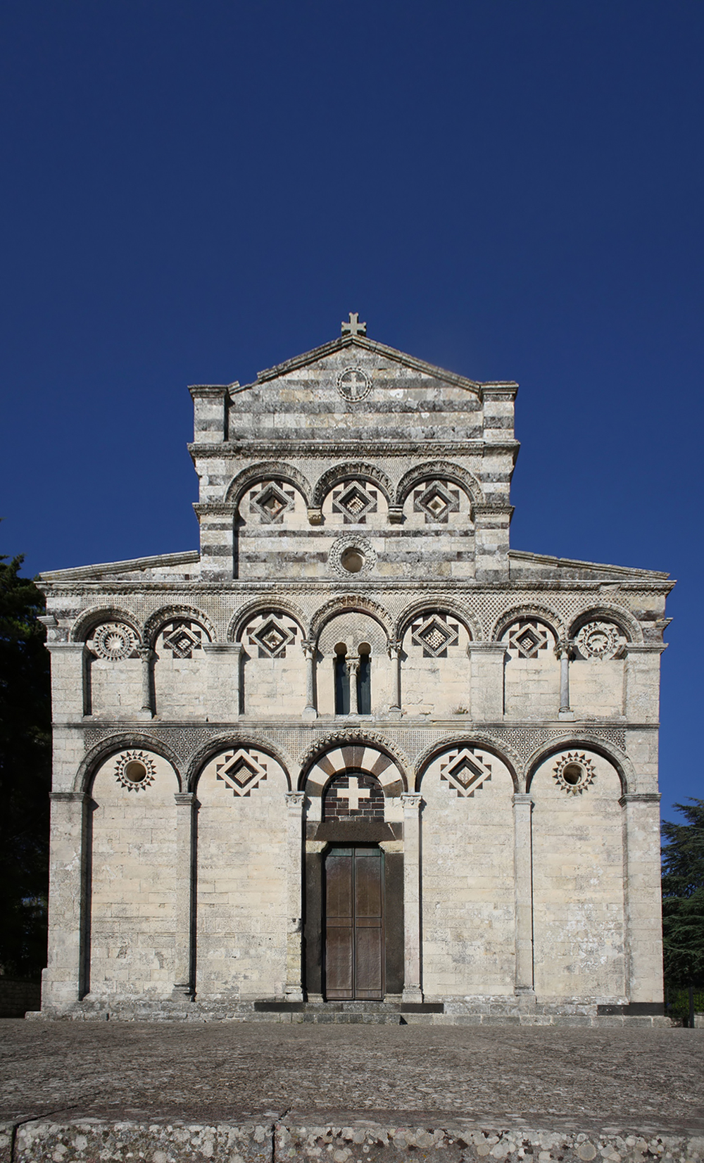 San Pietro di Sorres is a cathedral church and Benedictine monastery in Borutta, a village in the province of Sassari, northern Sardinia, Italy. Built in Pisan Romanesque style during the 12th-13th centuries, it was the seat of the now disappeared diocese of Sorres until 1505. Since 1950 the church and the annexed monastery house a community of Benedictine monks. The church is located at the top of a volcanic hill in the so-called Meilogu region.